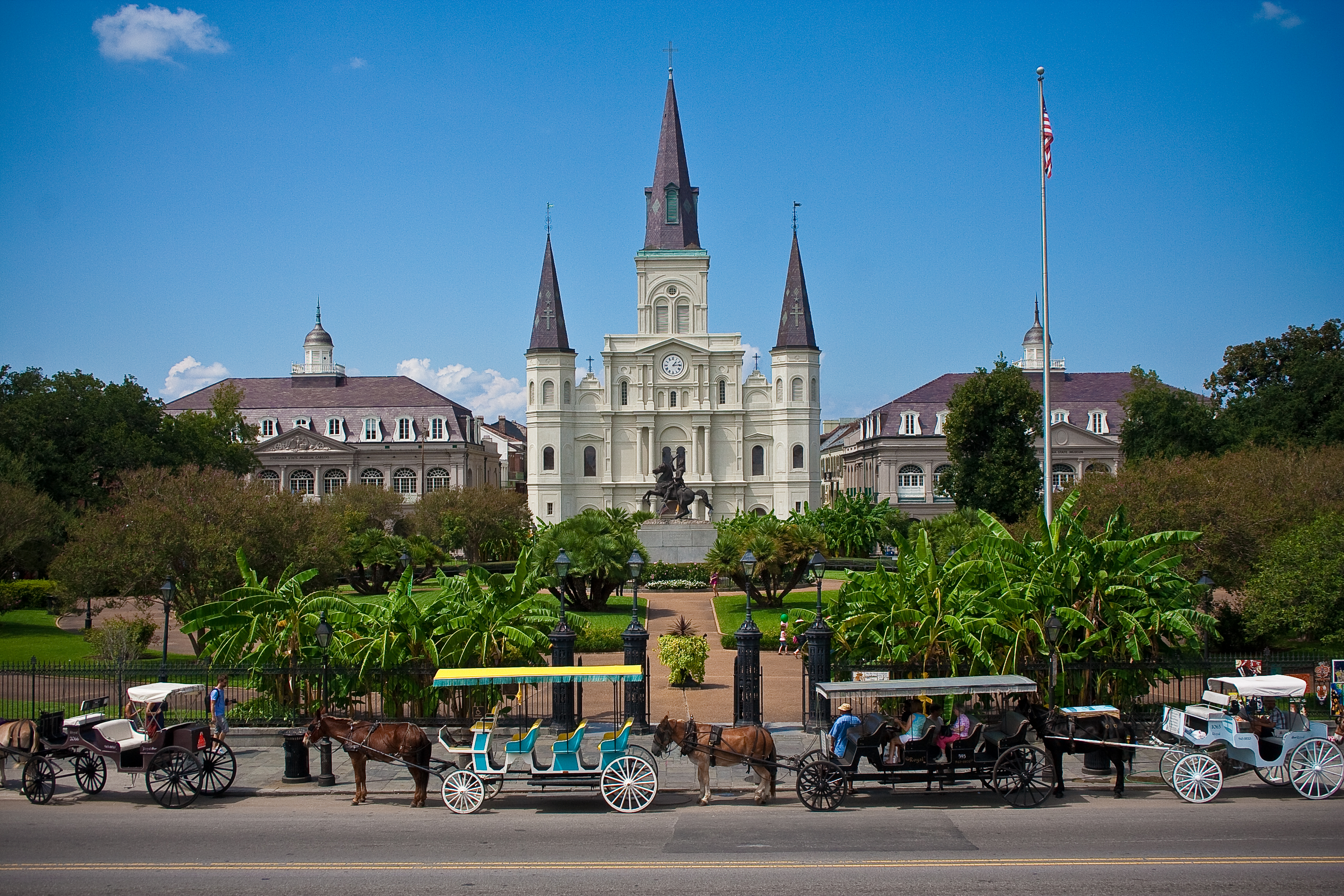 Saint Louis Cathedral in New Orleans, Louisiana.